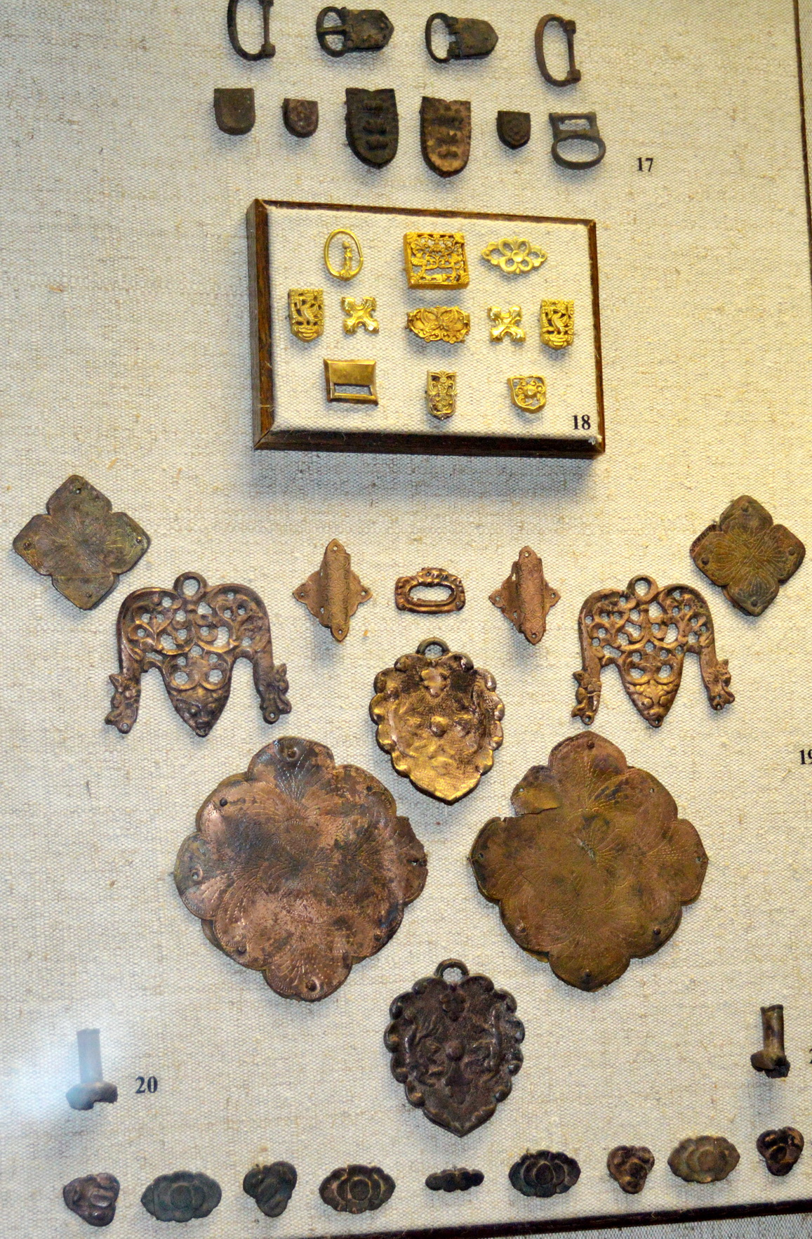 Ancient Khakass state, 6-9 c. AD. Jewellery decorations and horse decorations, bronze, gold.